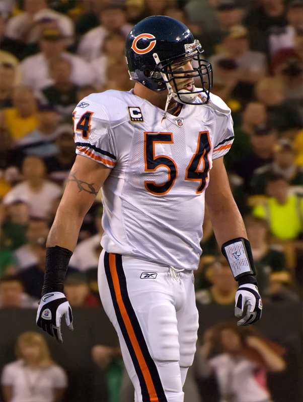 Lambeau Field, September 13, 2009, 2010. Photo by Mike Morbeck.